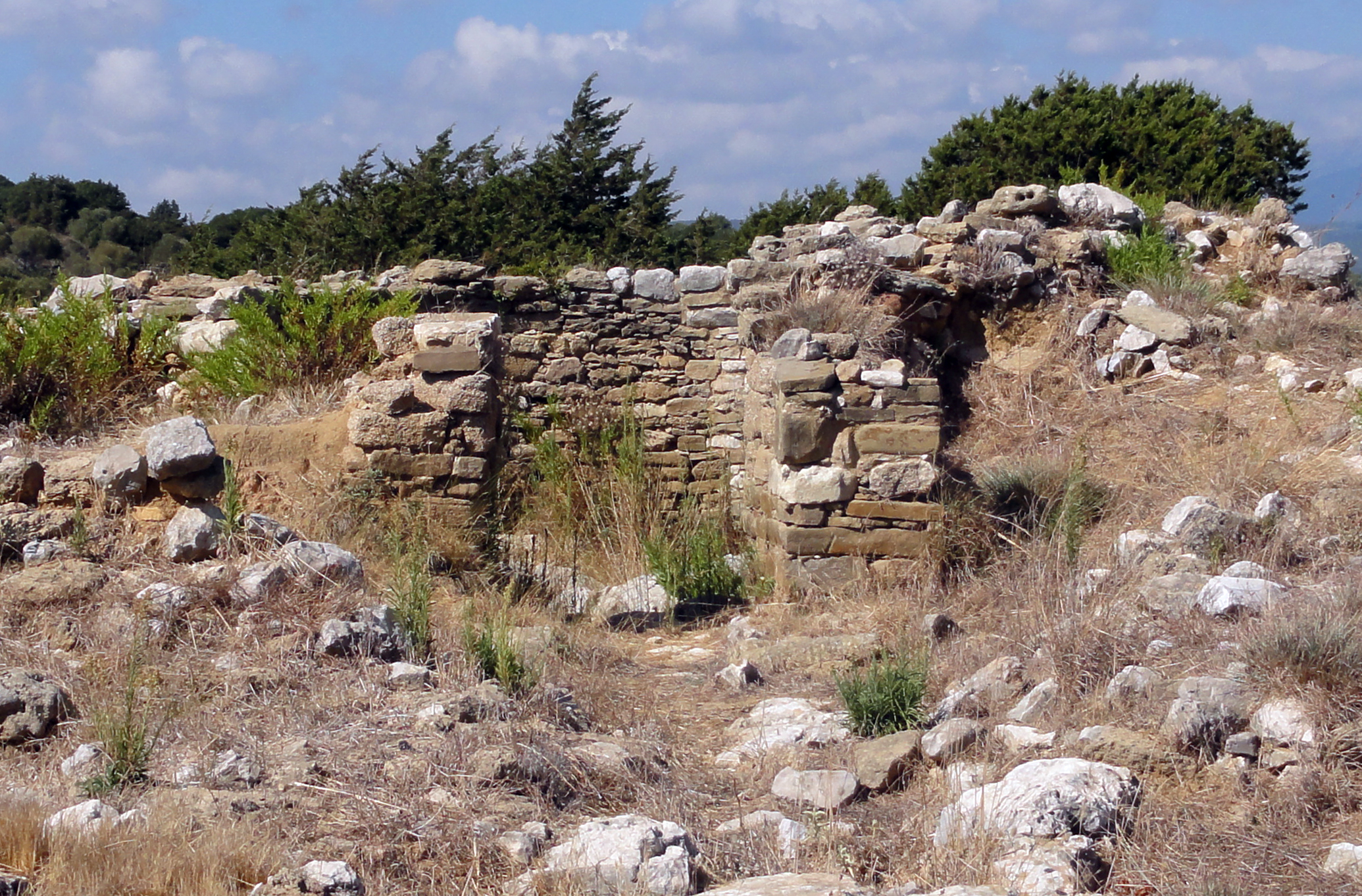 Tomb of Thrasimidis (Nestor's son) overlooking Voidokilia.